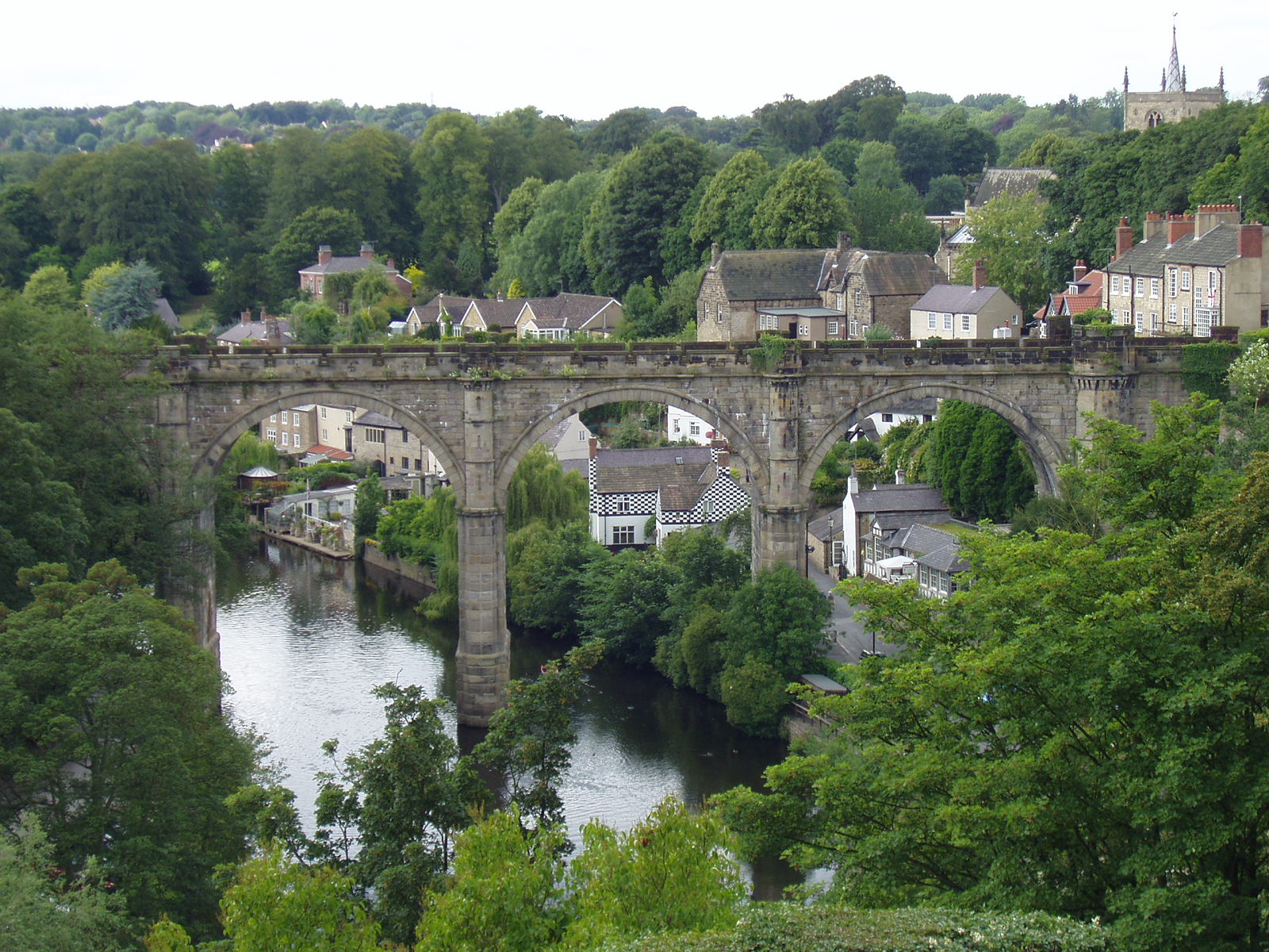 Railway viaduct at Knaresborough; photo taken from the old castle, Knaresborough, Yorkshire, UK